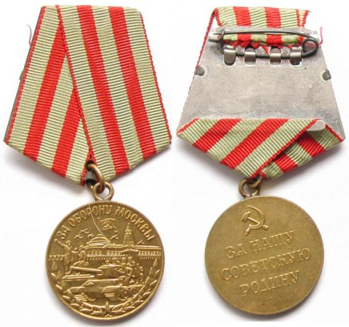 Soviet Medal for the defence of Moscow (Медаль "За оборону Москвы")